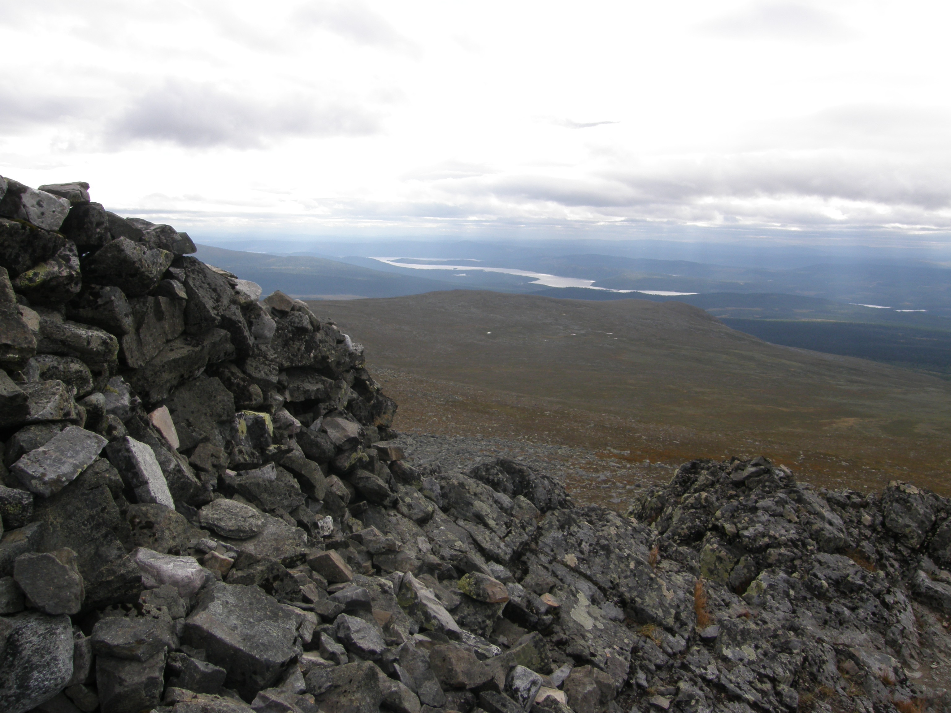 View from top of Ånnfjället, Härjedalen, Sweden with the lake Lossen in the background.